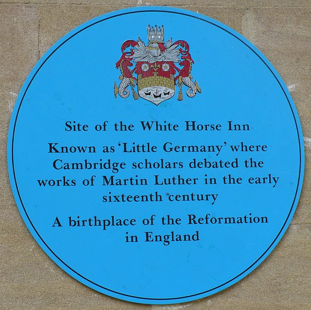 Site of the White Horse Inn. This plaque is on 818428.